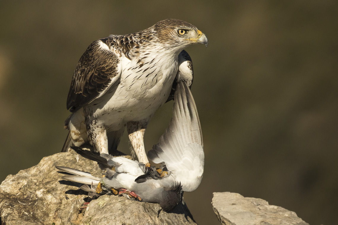 Bonelli's Eagle with prey - Montsonis - Spain_MG_4679